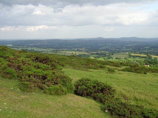 Clee Hill Common. Famed roadside viewpoint high on Clee Hill. View beyond the gorse covered upland heath to Abberley and Woodbury Hill and most of Worcestershire.